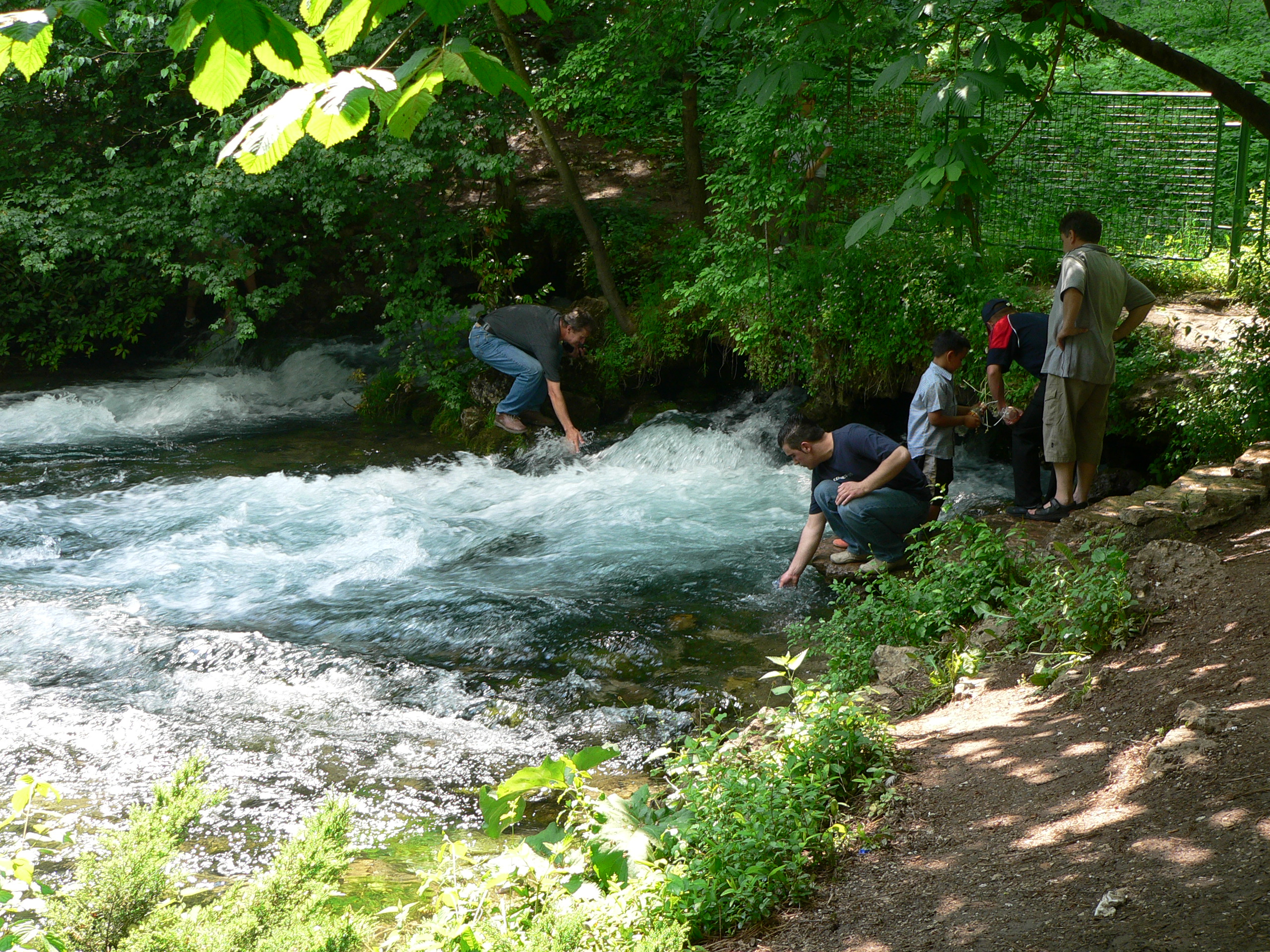 Vrelo Bosne, karst spring in the Dinaric Alps at the western mountain rim of Sarajevo (near Ilidža).